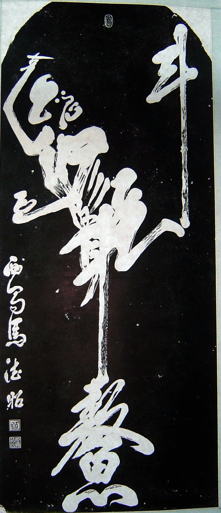 An ink rubbing of one of the calligraphy stela at the Beilin Museum in Xi'an, called the "God of Literature Pointing the Dipper." It depicts the figure, made up of the characters describing the four Confucian virtues, standing on the head of the ao (鰲) turtle (an expression for coming first in the imperial civil service examinations), and "pointing the dipper (斗)" (another expression with the same meaning).